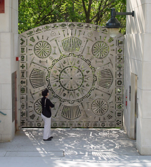 Sculpture created by Tom Nussbaum in 2002 for the Bay Street Station, Montclair NJ, of the New Jersey Transit Montclair-Boonton Line.